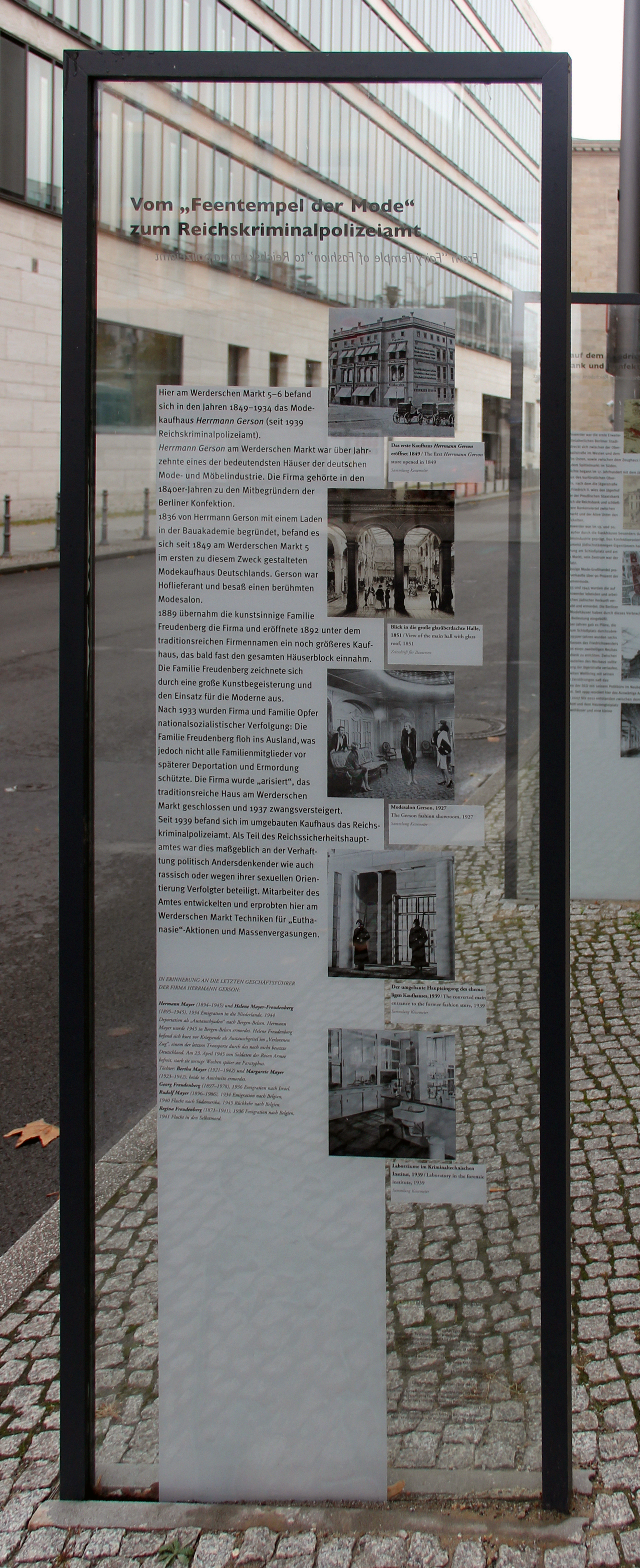 Memorial plaque, Herrmann Gerson, Werderscher Markt 11, Berlin-Mitte, Deutschland